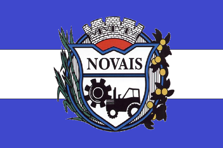 Flag of Novais, state of São Paulo, Brazil. This work is in the public domain in Brazil for one of the following reasons: It is a work published or commissioned by a Brazilian government (federal, state, or municipal) prior to 1983.(Law 3071/1916, art. 662; Law 5988/1973, art. 46; Law 9610/1998, art. 115) It is the text of a treaty, convention, law, decree, regulation, judicial decision, or other official enactment.(Law 9610/1998, art. 8) This image shows a flag, a coat of arms, a seal or some other official insignia. The use of such symbols is restricted in many countries. These restrictions are independent of the copyright status.